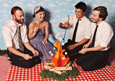 Ryan Figg, Yvonne Lambert, Toto Miranda & Josh Lambert